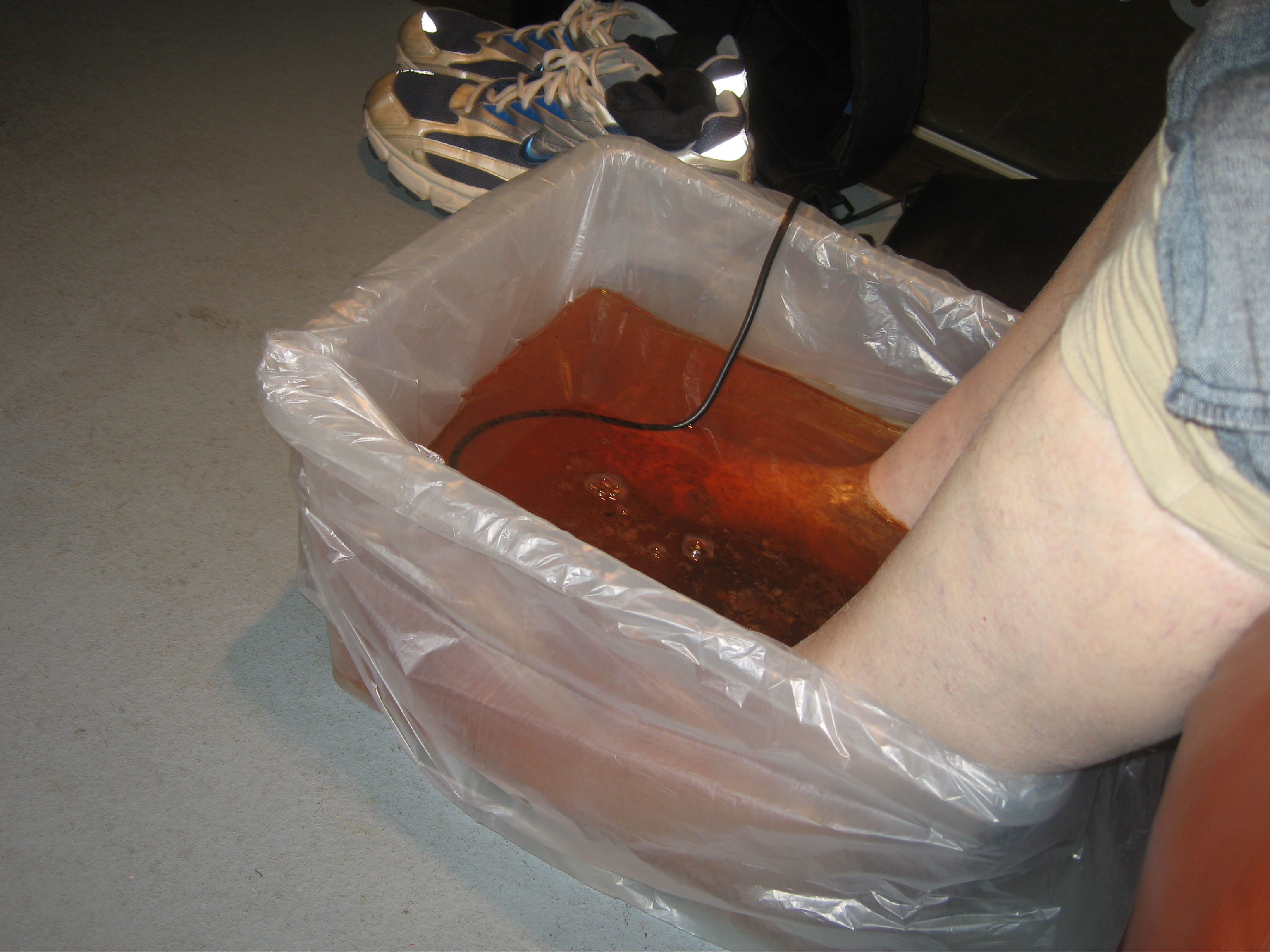 I took this image of my mum getting an Aqua Detox.